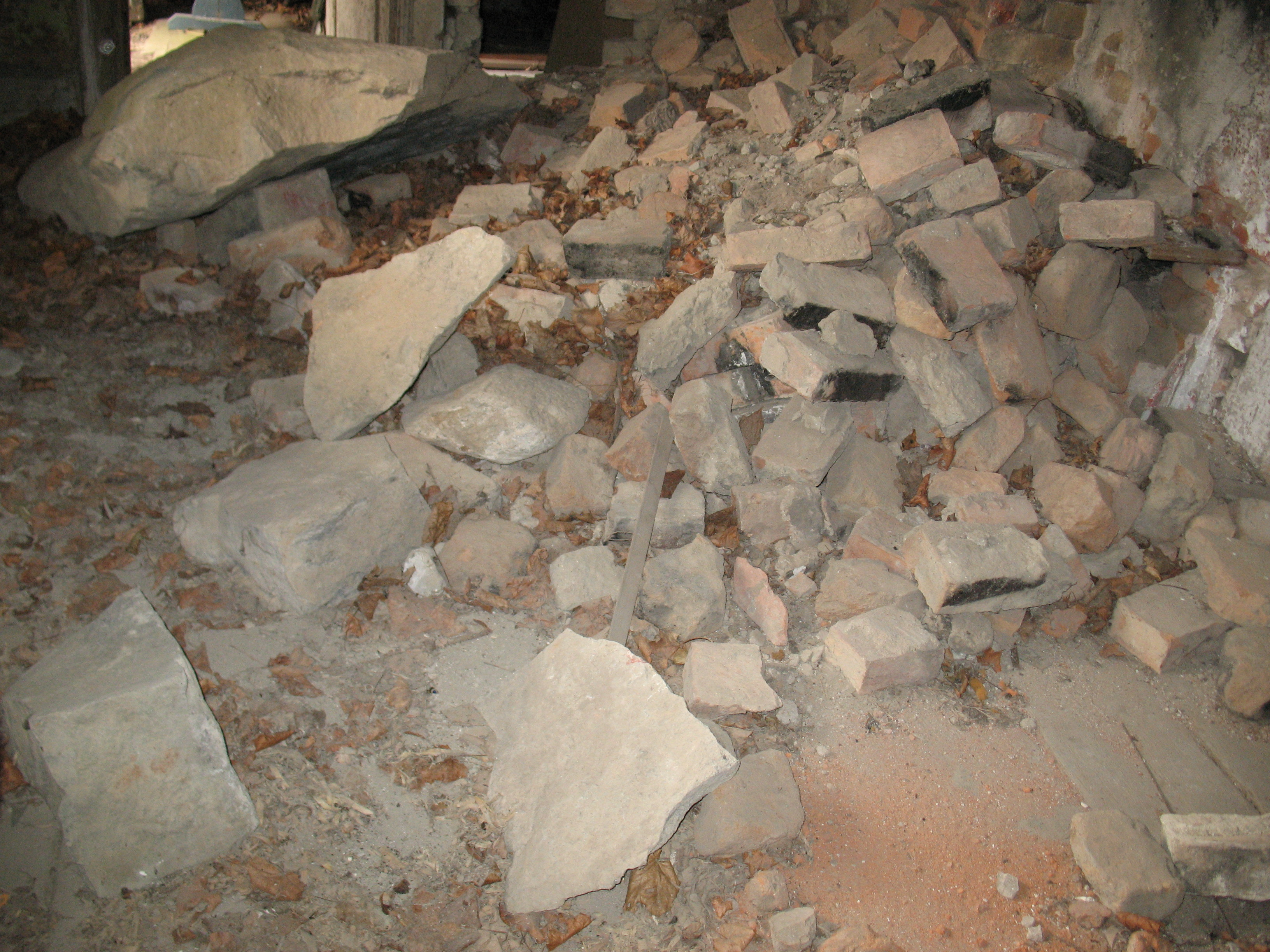 the remains of a runestone that could still be seen in 2008 at the estate of Örby in Uppland, Sweden. The friendly owners of Hörby appear to keep it unchanged as a courtesy to the visitors who arrive to see if anything remains of the stone.